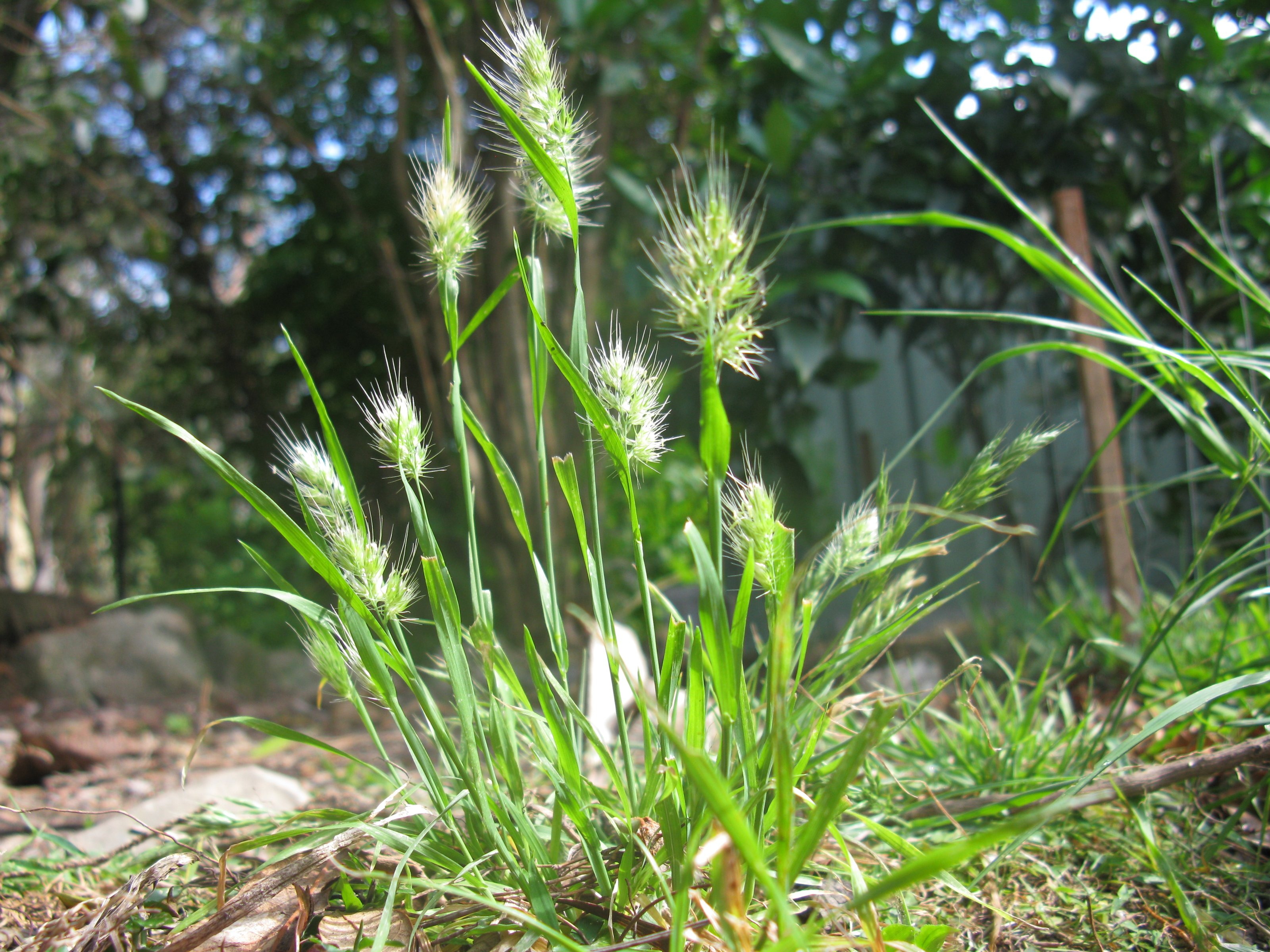 Erect, tufted grass to 1 m tall; but often much less.